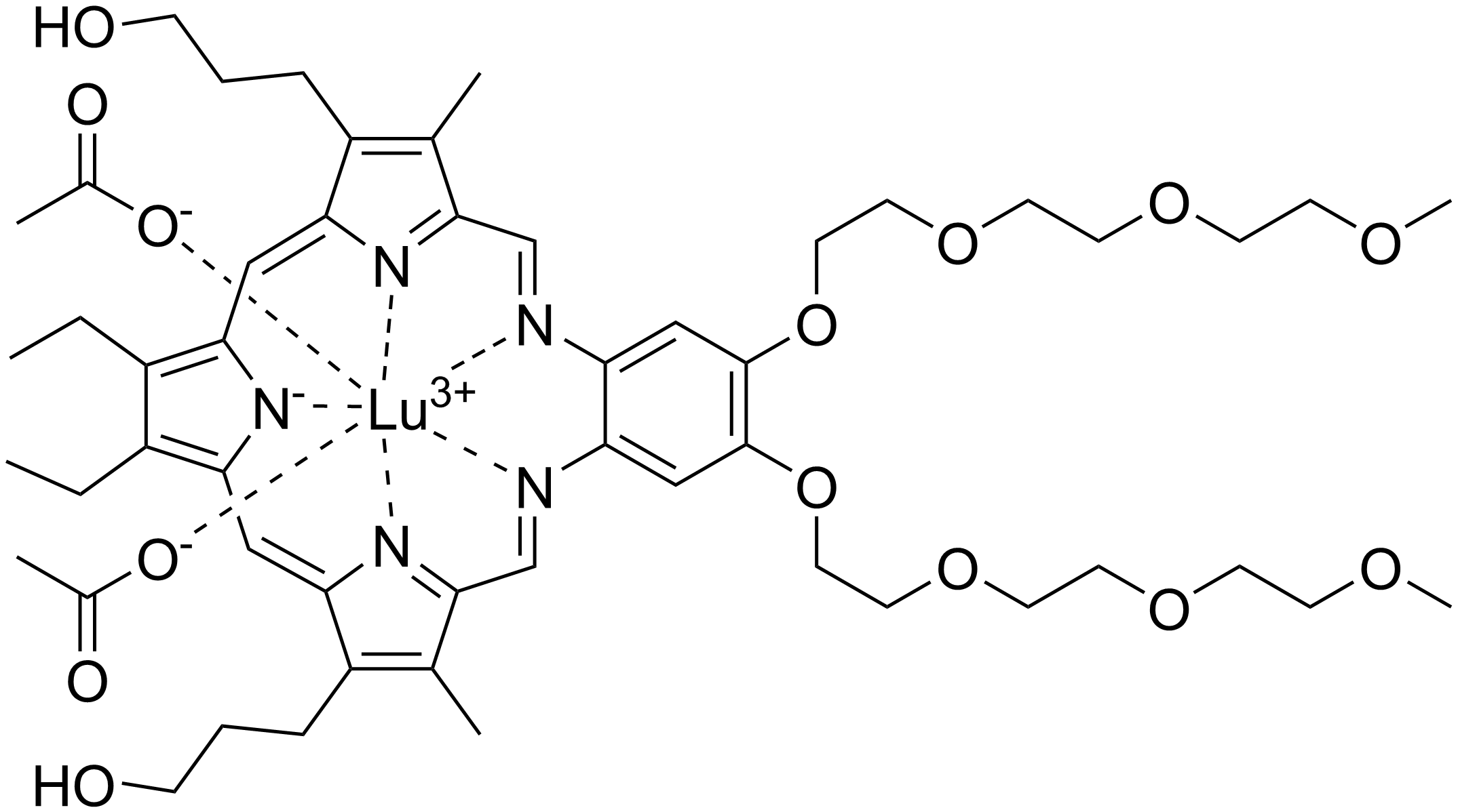 Chemical structure of Motexafin lutetium